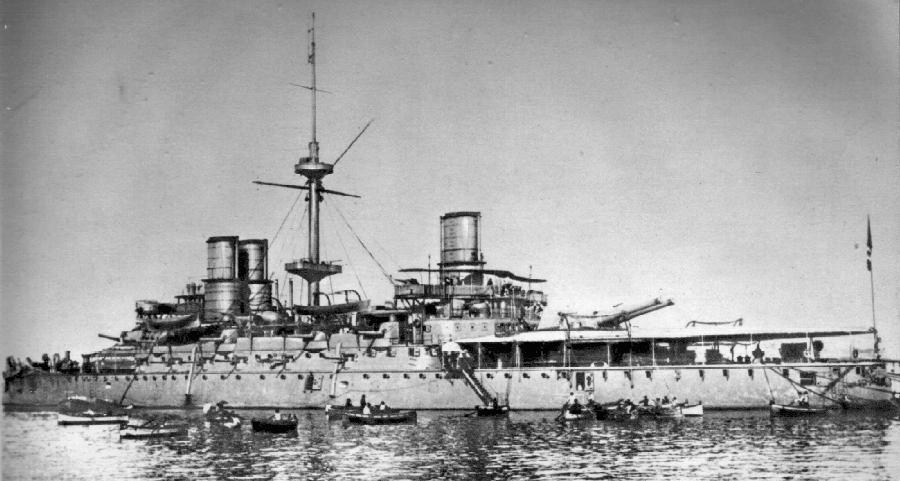 The Italian battleship Sardegna